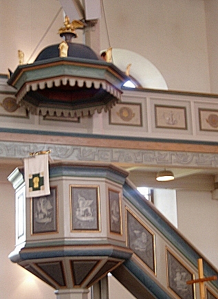 Pulpit of the Liperi Church in Liperi, Finland